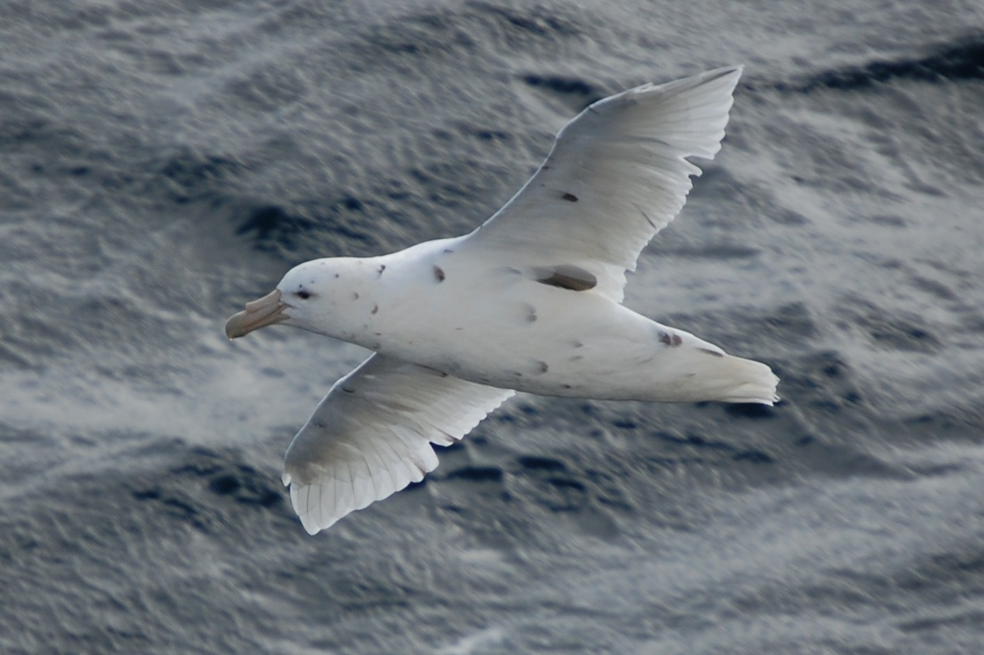 Southern giant petrel light phase. Southern Ocean, Drake's Passage area.